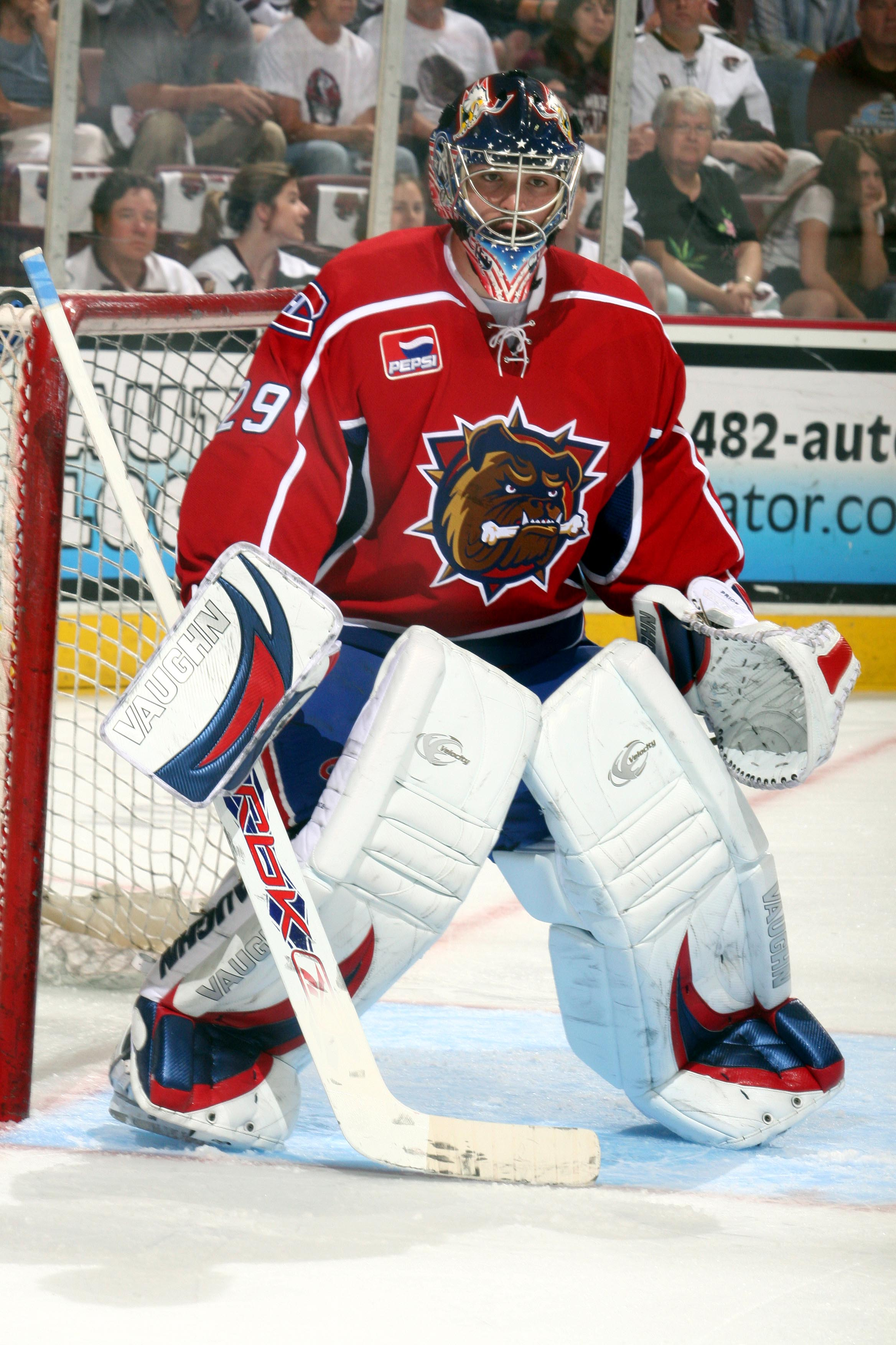 JustSports Photography